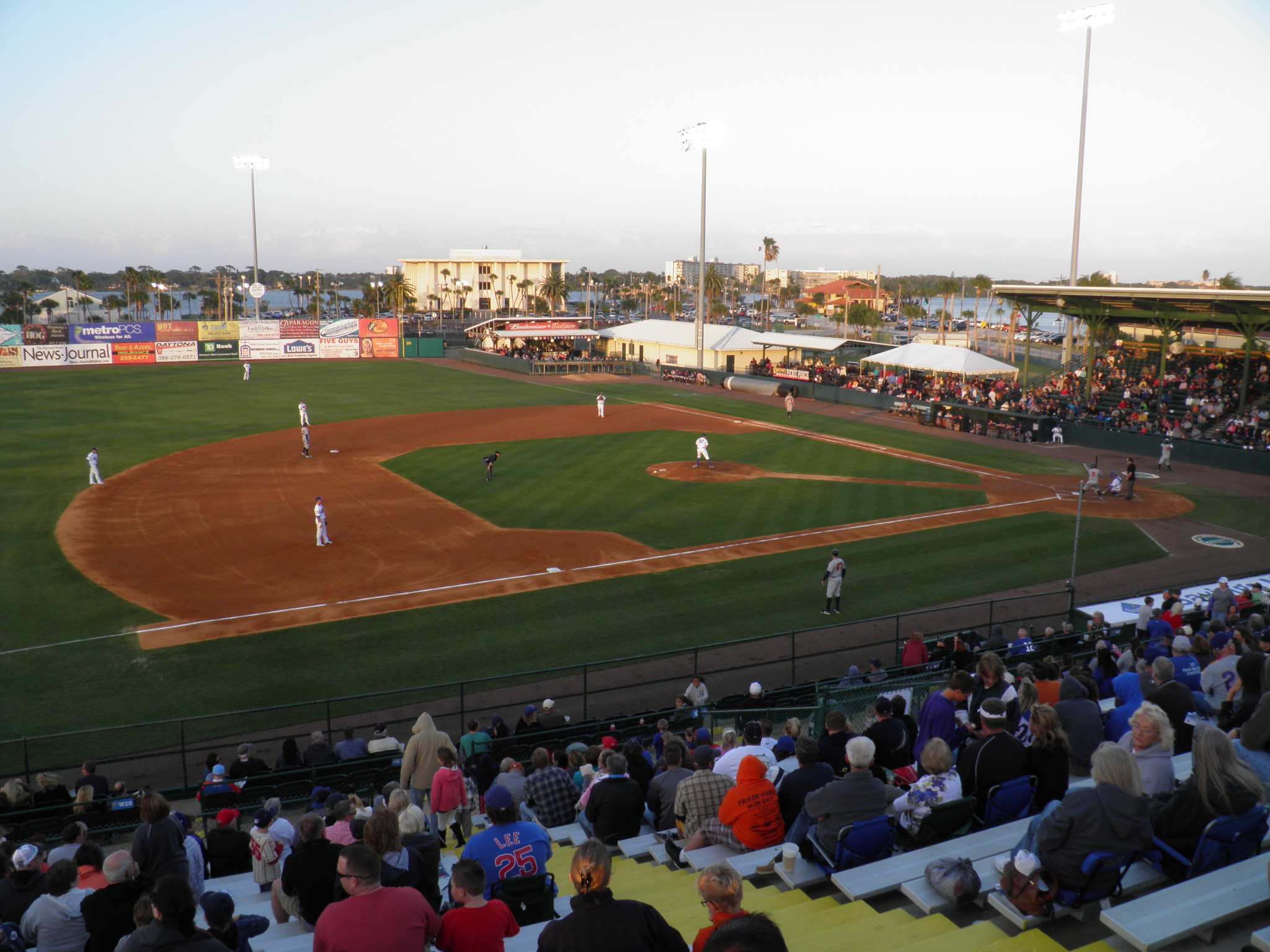 Daytona Cubs vs. Brevard County Manatees, at Jackie Robinson Ballpark in Daytona Beach, April 6, 2013.